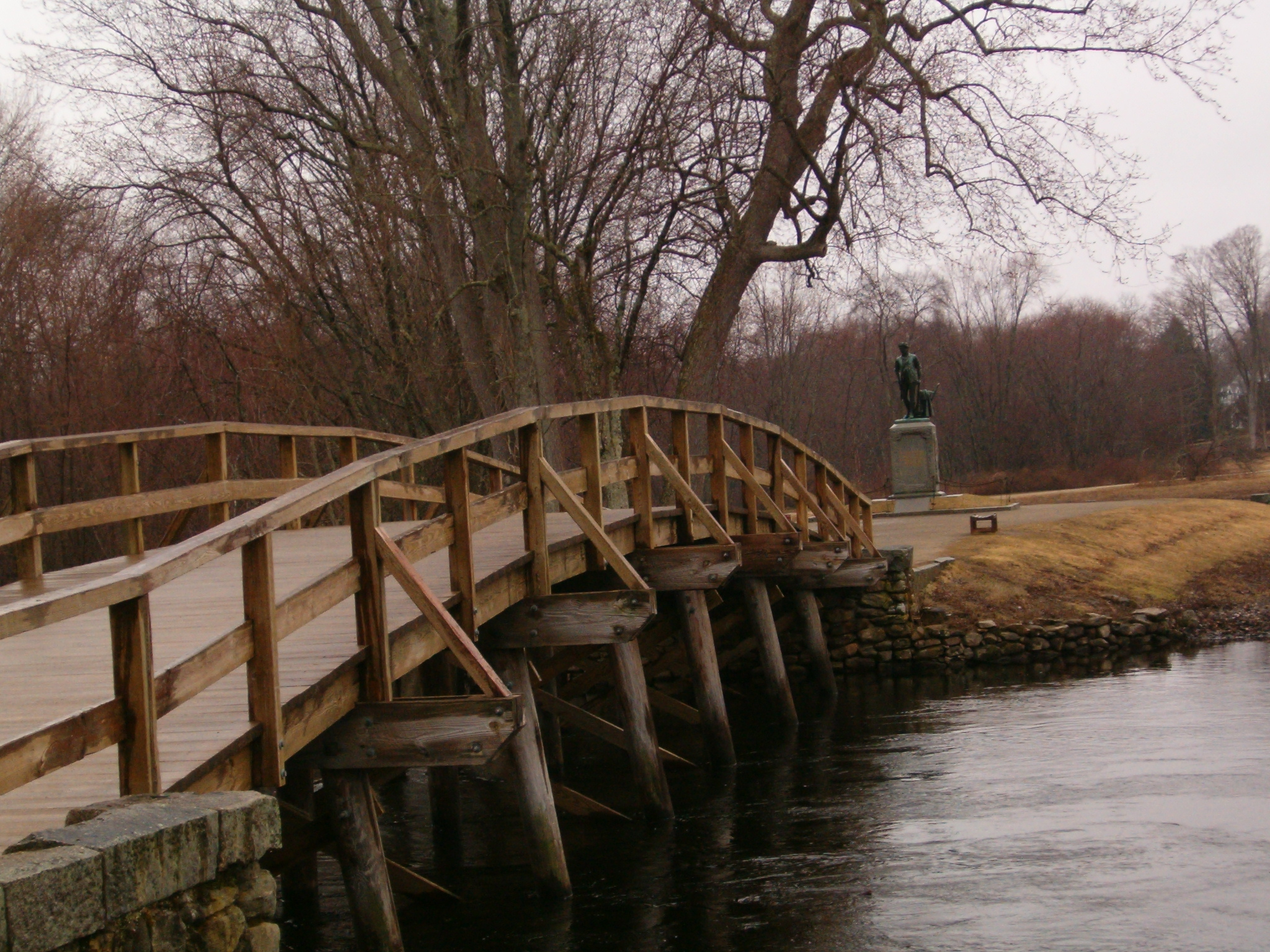 Old North Bridge today